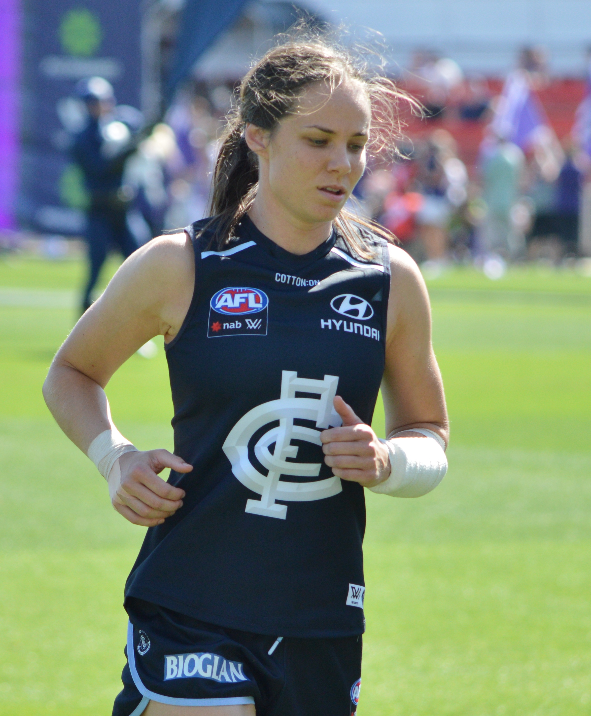 Chloe Dalton with Carlton during a preliminary final against Fremantle at Ikon Park in March 2019.